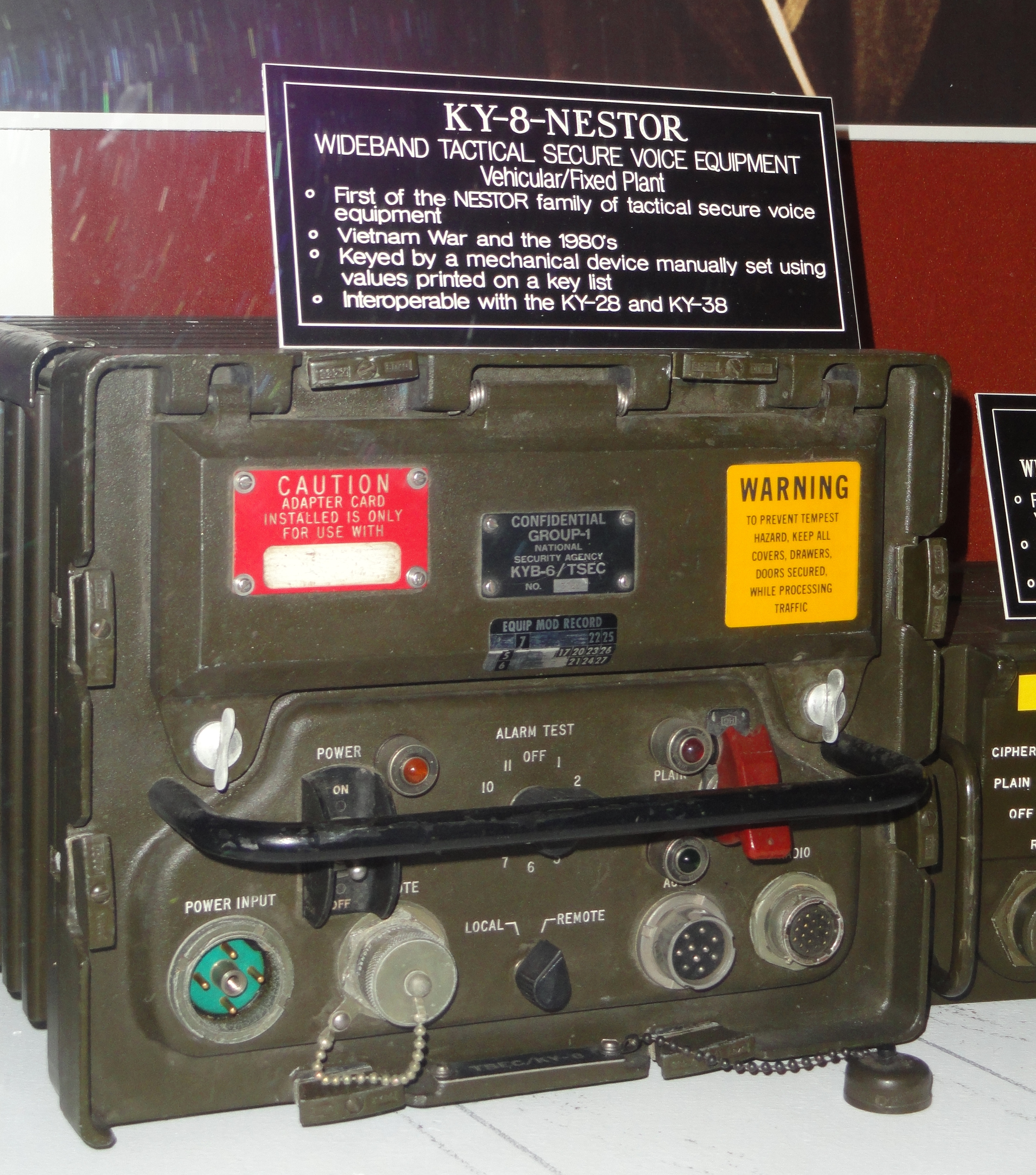 Exhibit in the National Cryptologic Museum, Fort Meade, Maryland, USA. All items in this museum are unclassified; items created by the United States Government are not subject to copyright restrictions.